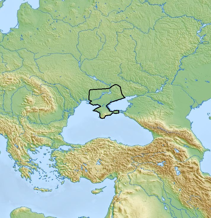 Map of the Kemi Oba culture, based on a map printed at page 327 in Encyclopedia of Indo-European Culture, which was edited by J. P. Mallory and Douglas Q. Adams, and published by Taylor & Francis in 1997.